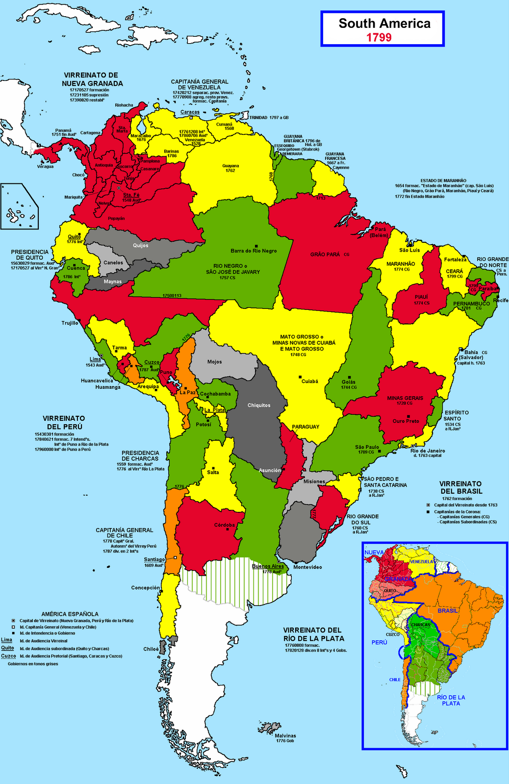 A closer look at the divisions of the Viceroyalties of South America.